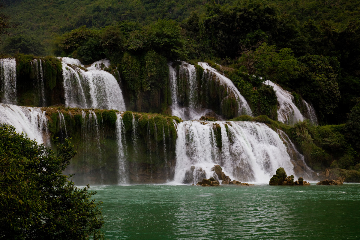 Ban Gioc – Detian Falls in the Sino-Vietnamese border